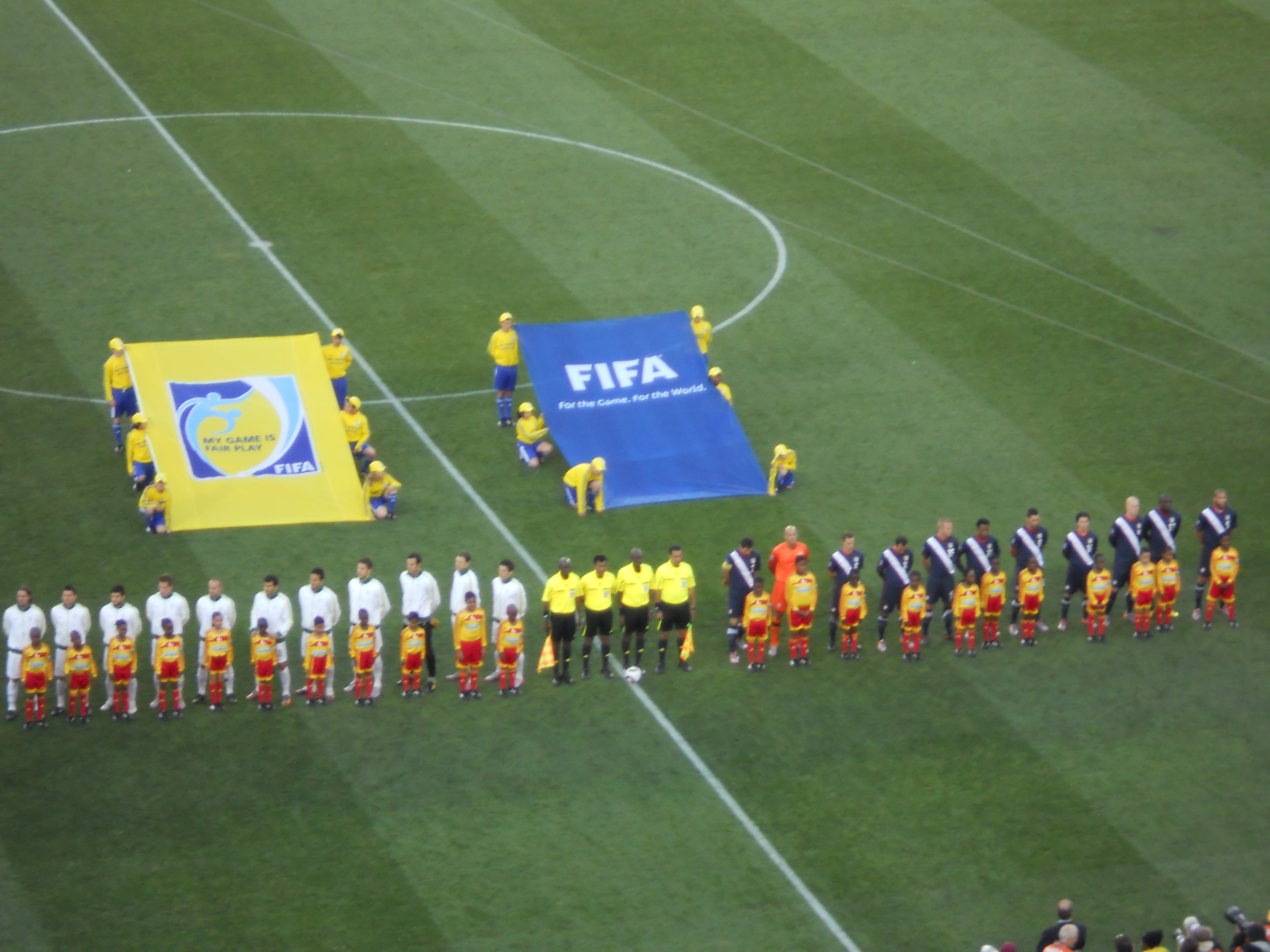 Slovenia-USA match at FIFA World Cup 2010